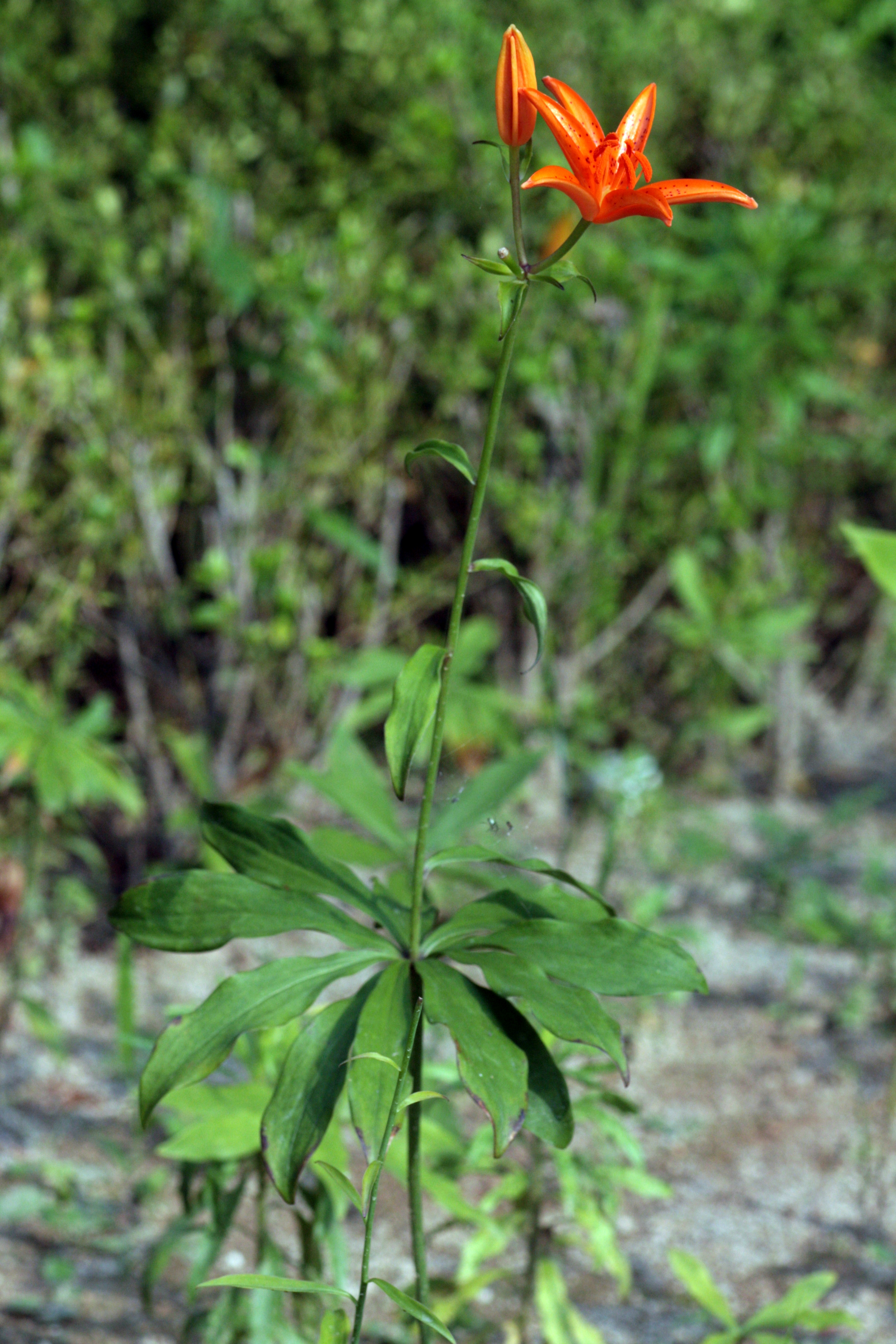 Lilium tsingtauense